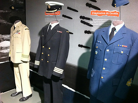 Royal Canadian Navy, Canadian Army and Royal Canadian Air Force service uniforms on display at the Canadian War Museum